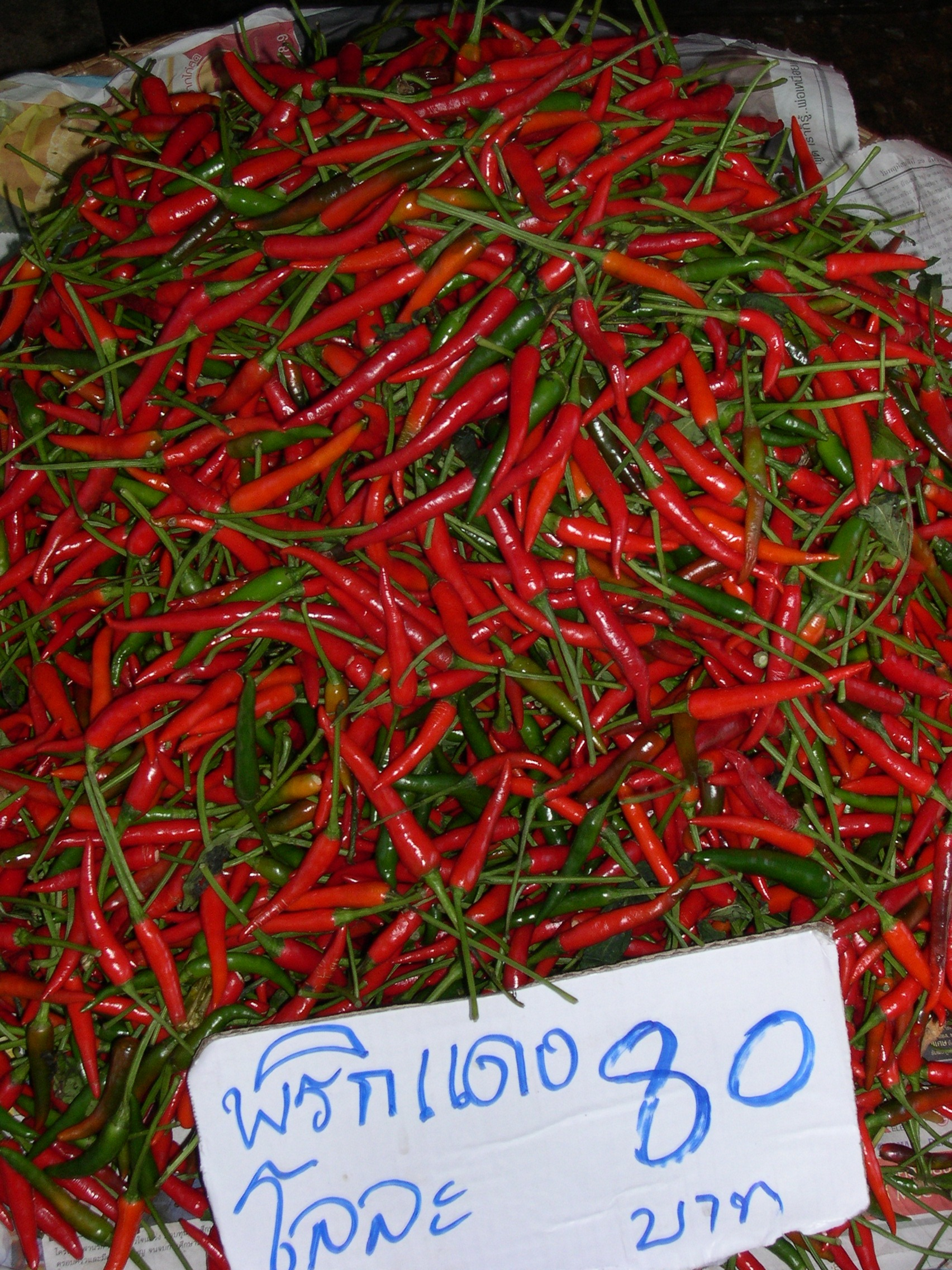 A basket full of the Thai goodness! Sign reads "Red Chilli, 1 Kilo 80 Baht" (=2,30US$).